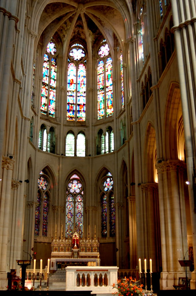 Choir of Église des Réformés in Marseille.